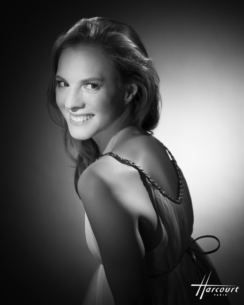 This picture was taken during a french festival in Paris